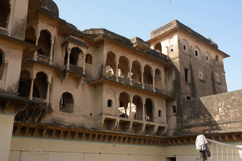 Picture of Back of Khetri Mahal Jhunjhunu.